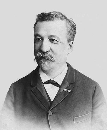 Photograph of the French artist Émile Munier (1840-11895)